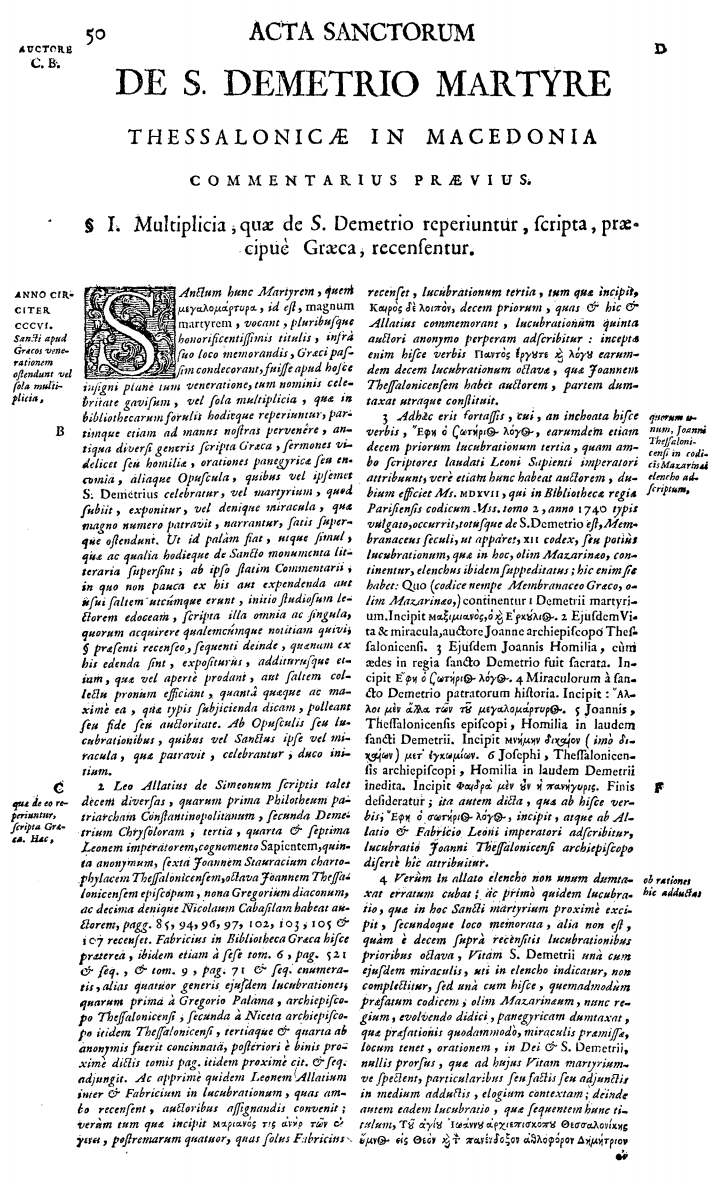 Acta Sanctorum 1780 - 50